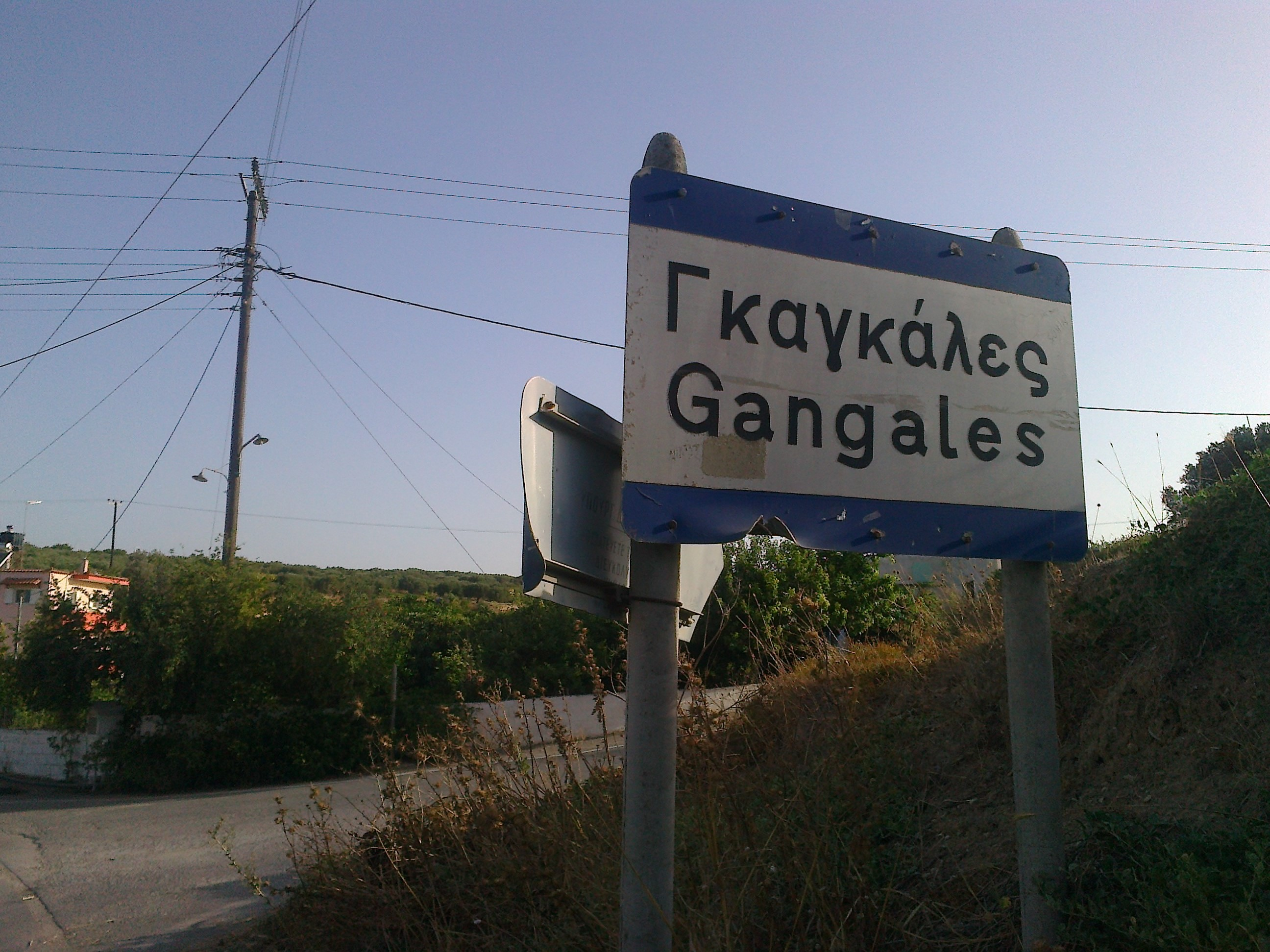 Gagales village entrance sign